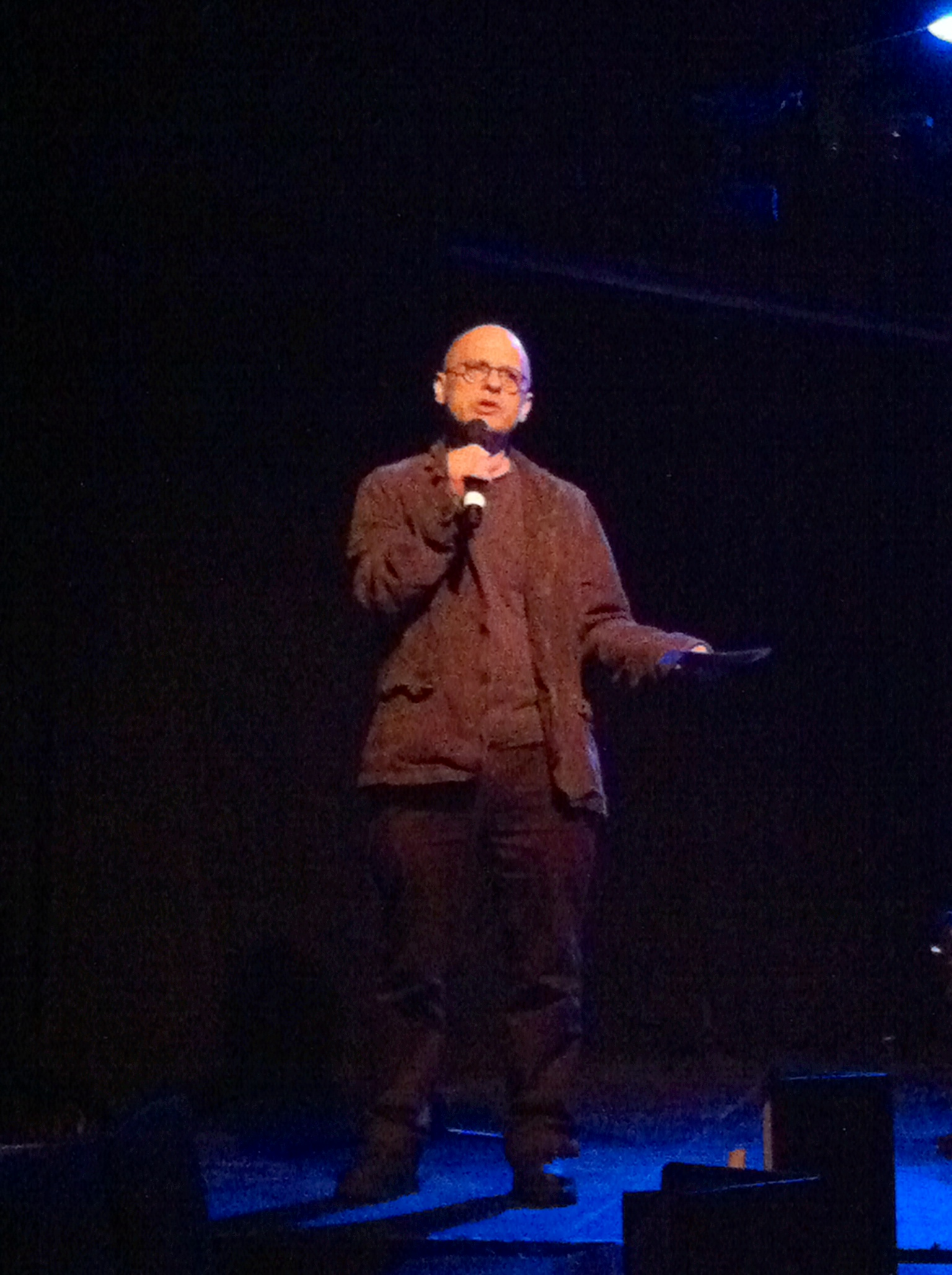 David Lang at le poisson rouge